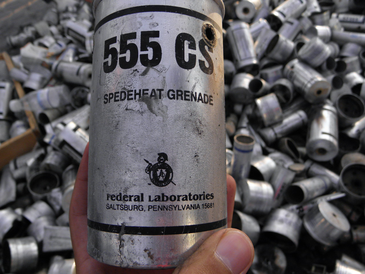 Remains of US made tear gas canicters in Bahrain. According to Physicians for Human Rights[1] "The Bahrain government’s indiscriminate use of tear gas as a weapon has resulted in the maiming, blinding, and even killing of civilian protesters."